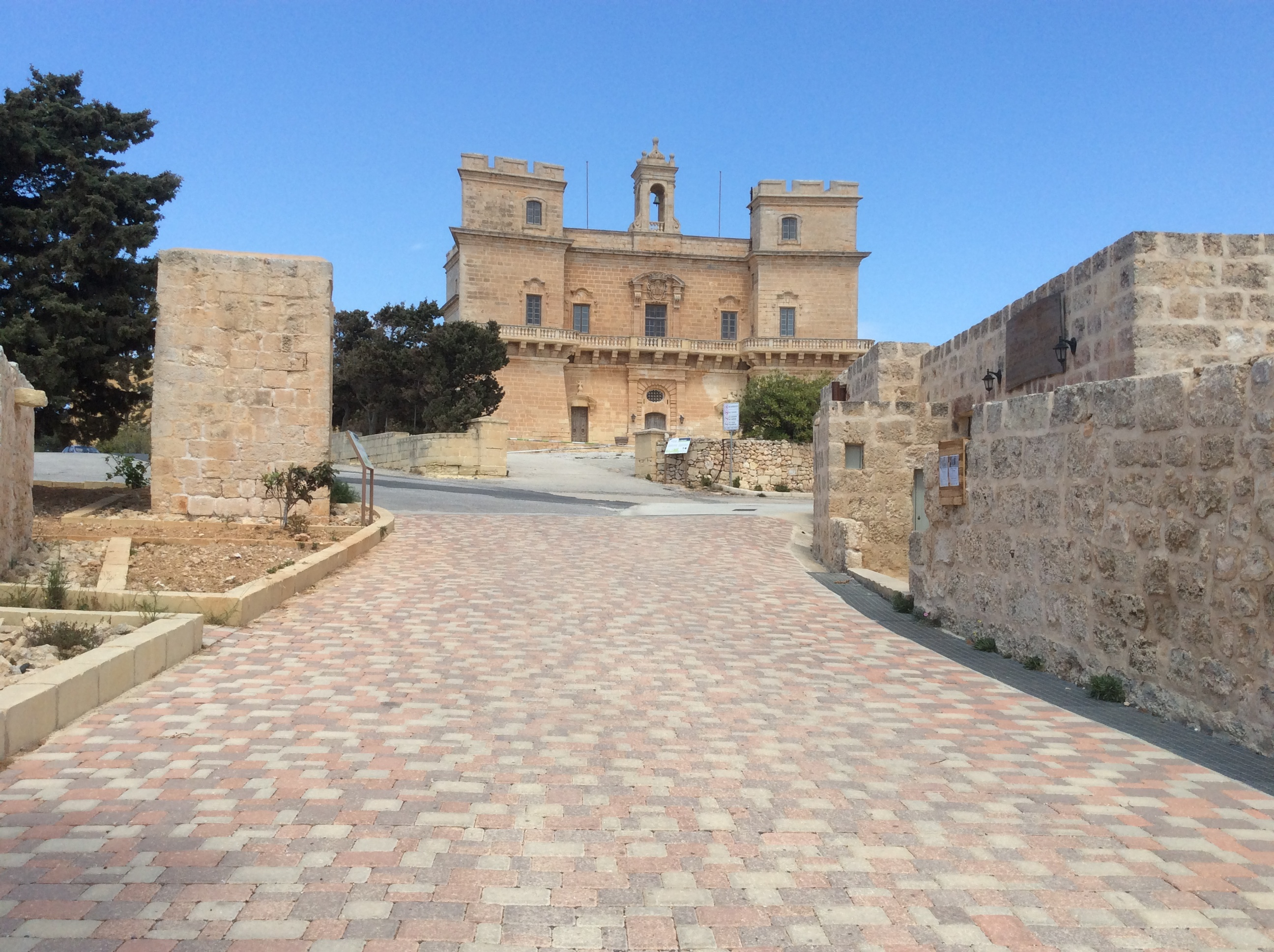 Selmun Palace area